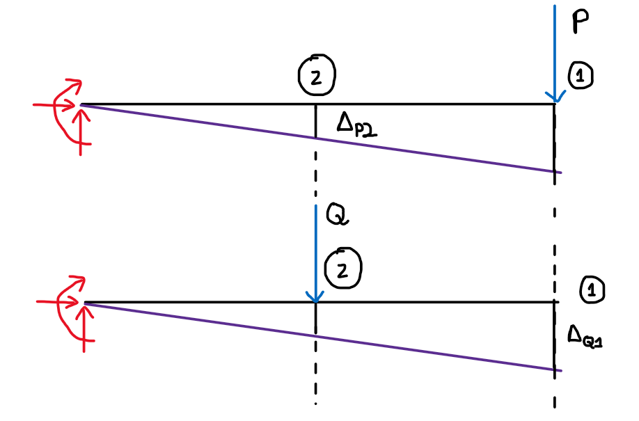 Figure for explanation of Betti's Theorem.